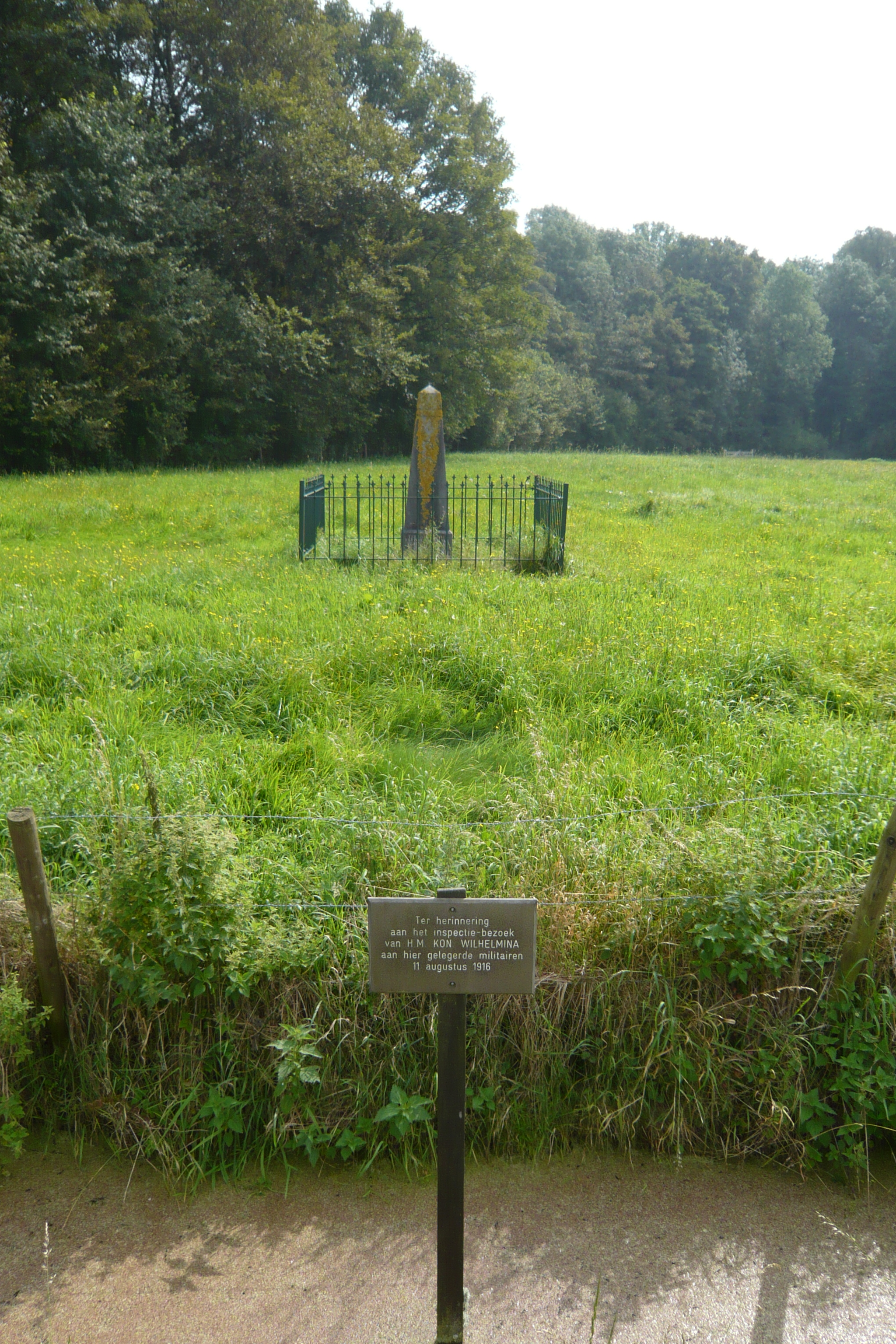 Military monument 11 august 1916, Bennebroek, the Netherlands